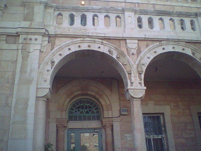 Decorations and ornaments of stone, Baka, Jerusalem